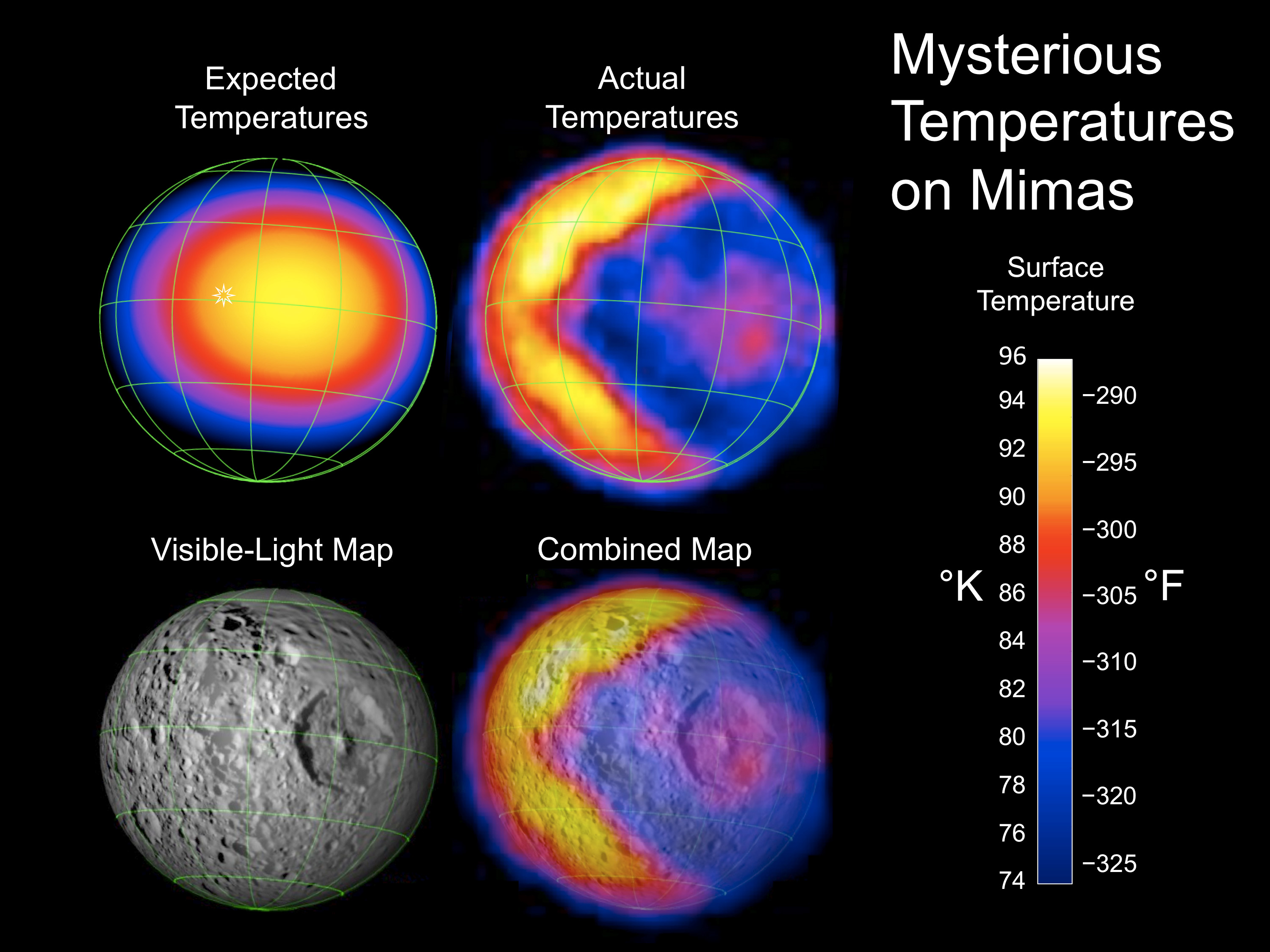 Target Name: Mimas Is a satellite of: Saturn Mission: Cassini-Huygens Spacecraft: Cassini Orbiter Instrument: Composite Infrared Spectrometer Imaging Science Subsystem Product Size: 1870 samples x 949 lines Produced By: Goddard Space Flight Center Other Information: JPL News Release 2010-103